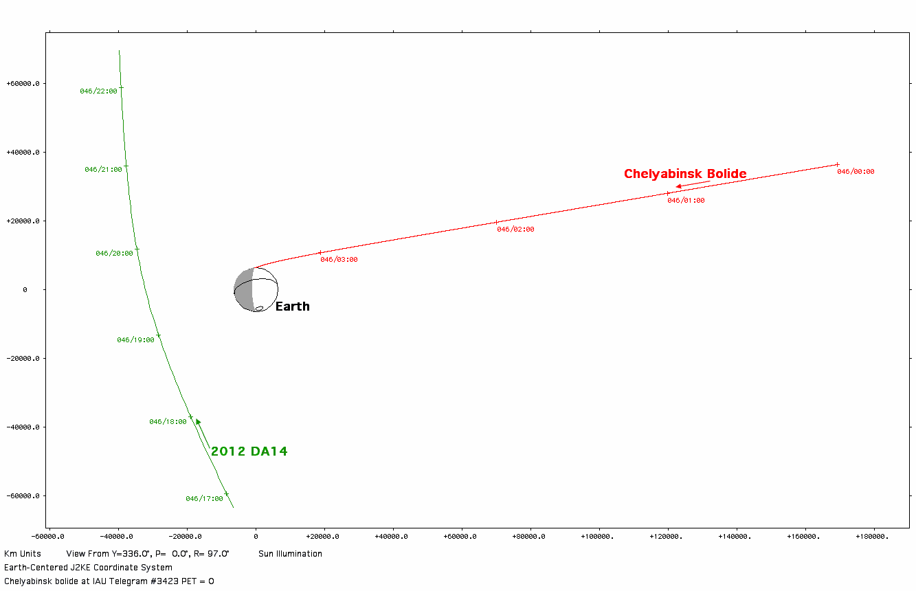 This diagram present the trajectories, on February 15, 2013, of both the close Earth approaching asteroid 2012 DA14 and the final trajectory of the asteroid that exploded in the Earth's atmosphere near Chelyabinsk Russia. The axes are in kilometers from the Earth and the day of the year (Feb. 15) and Universal times are noted along each trajectory.